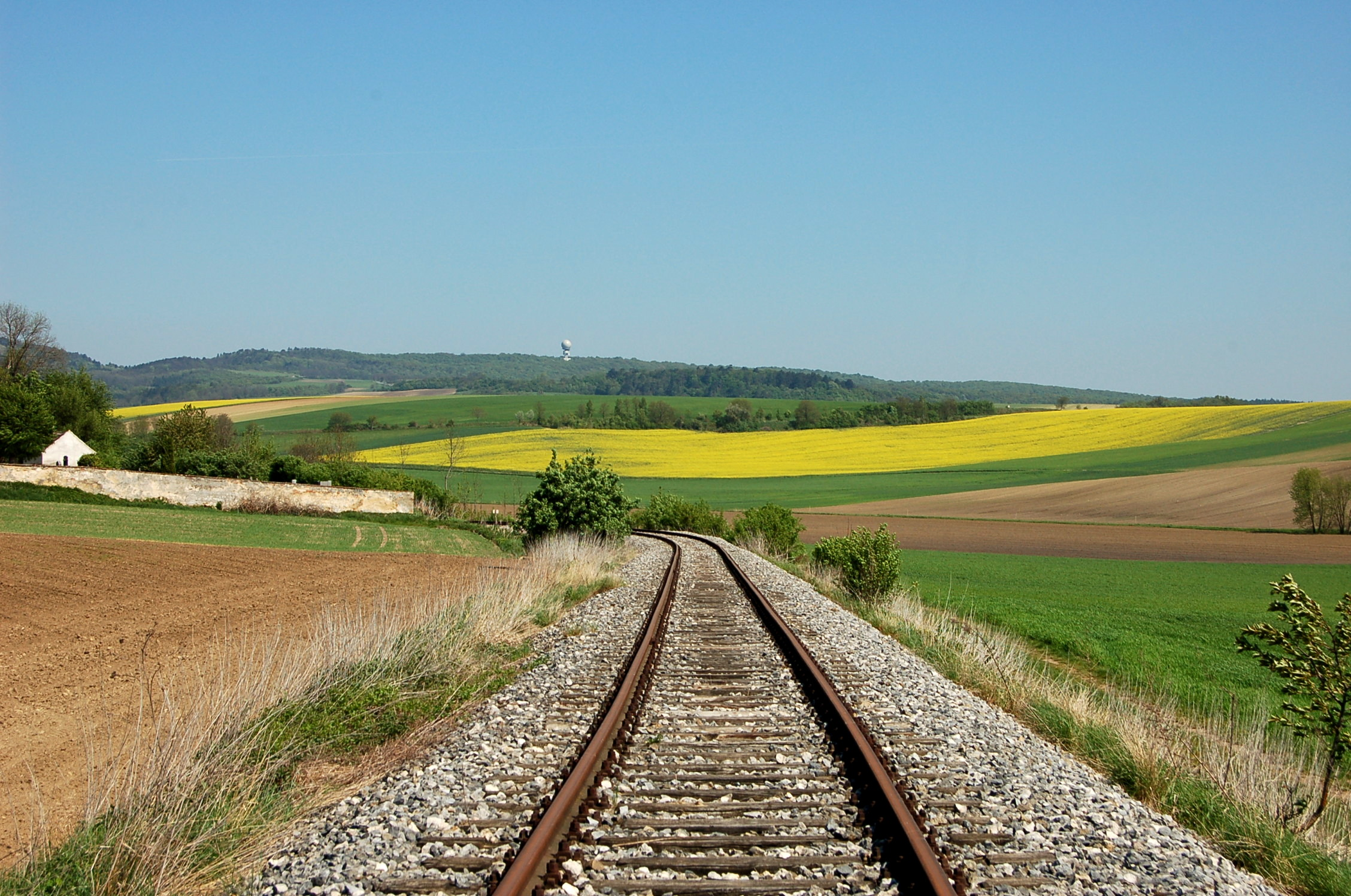 Weinviertelbahn (i.e. Weinviertel railway) near Niederleis, Lower Austria. The line is open only for rail-cycles.